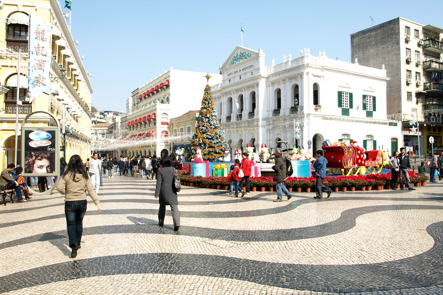 Senado Square on Christmas